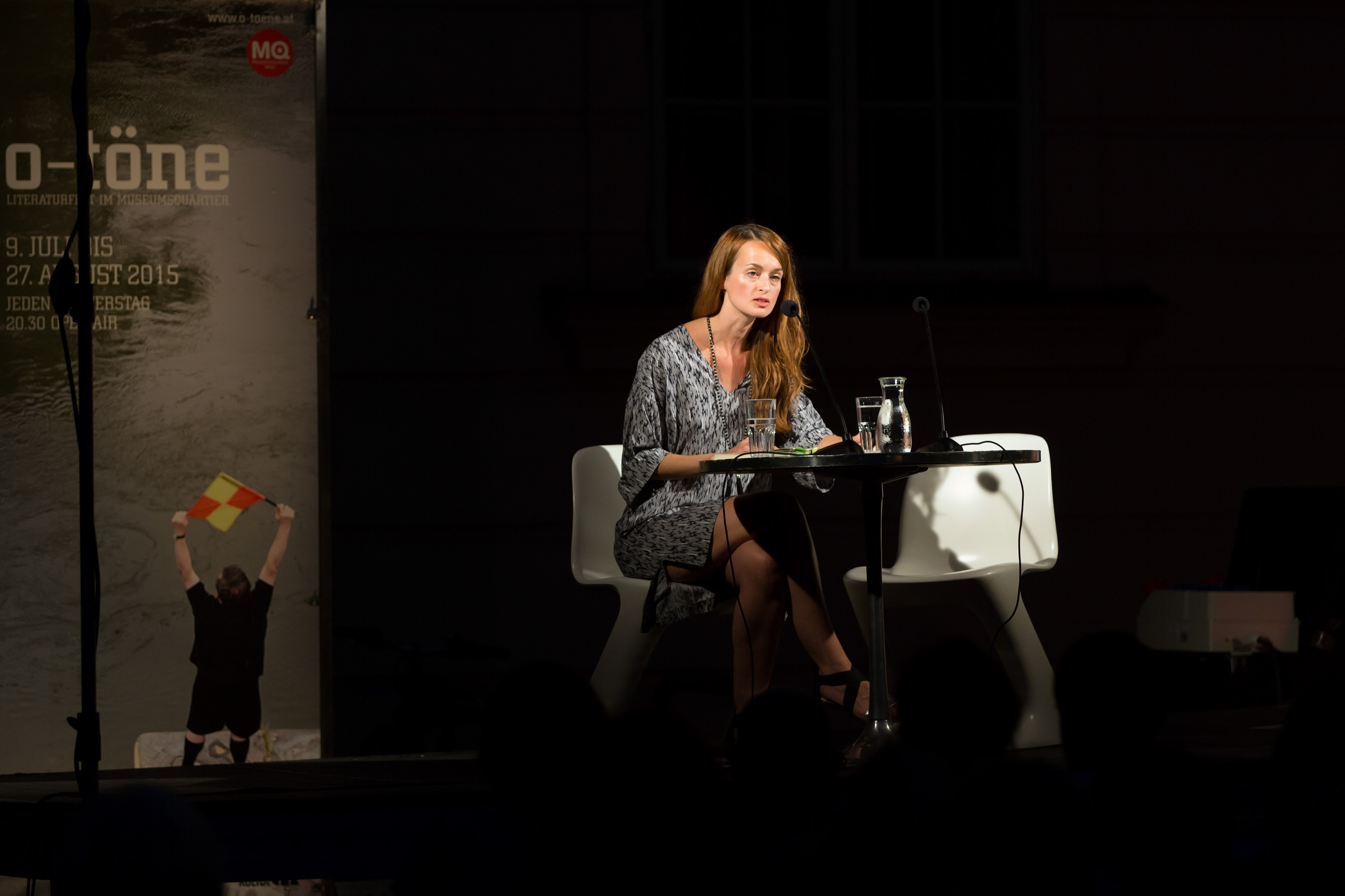 Sandra Gugić at the literary festival o-töne 2015 at Museumsquartier in Vienna, Austria.